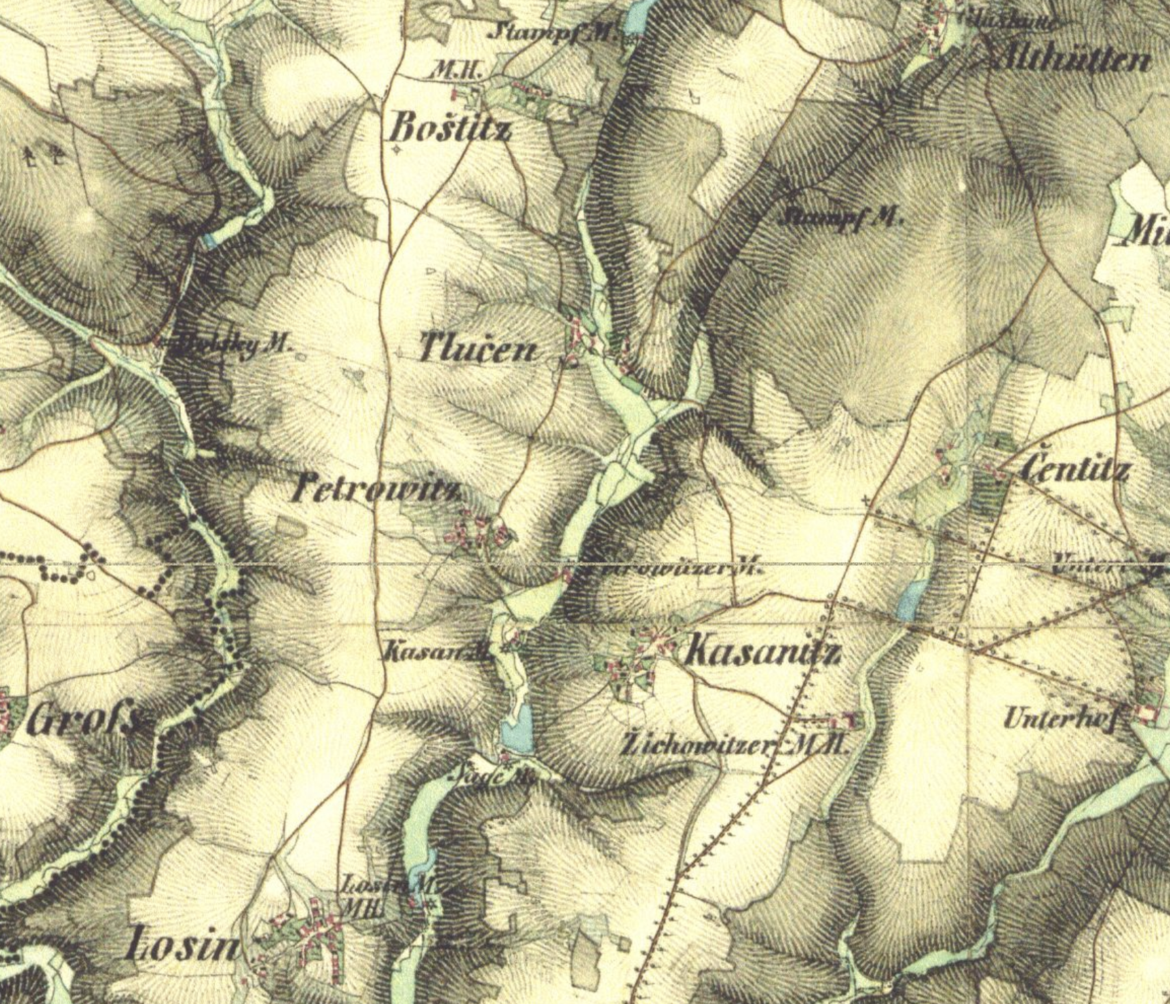 Second Austrian Land Survey from 1836-1852, area of Petrowitz town.